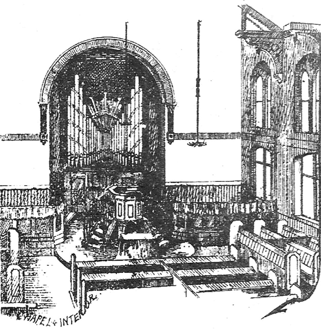 Drawing of interior of the 1869 building of the Westwood Moravian Church, Oldham, Lancashire, England, as it would have appeared between 1882 and 1923